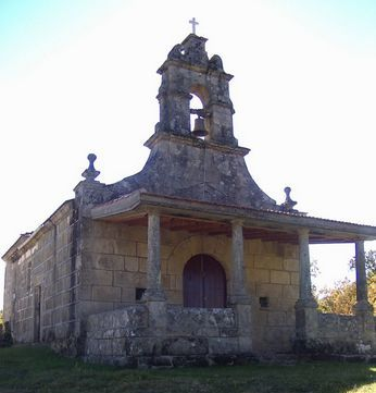 Capilla del Loreto